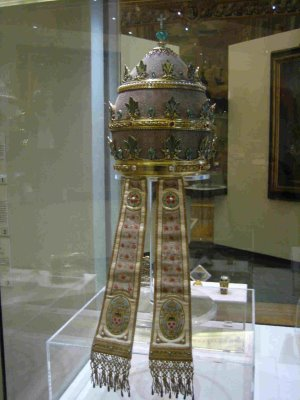 The tiara of Pope Pius XI.